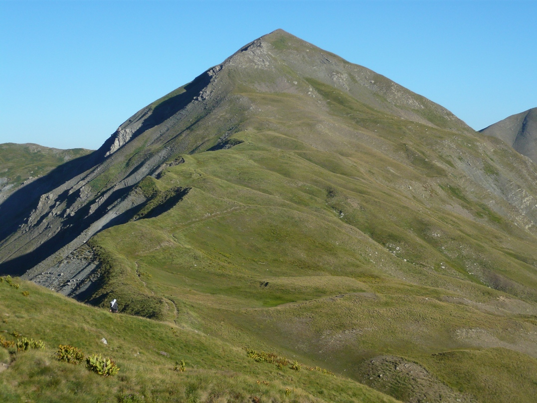 Summit of Mt. Grammos as seen from the South